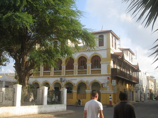 Downtown, Djibouti City